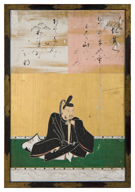 Sanjūrokkasen-gaku (Thirty-six Poetry Immortals framed picture) #2: Ki no Tsurayuki